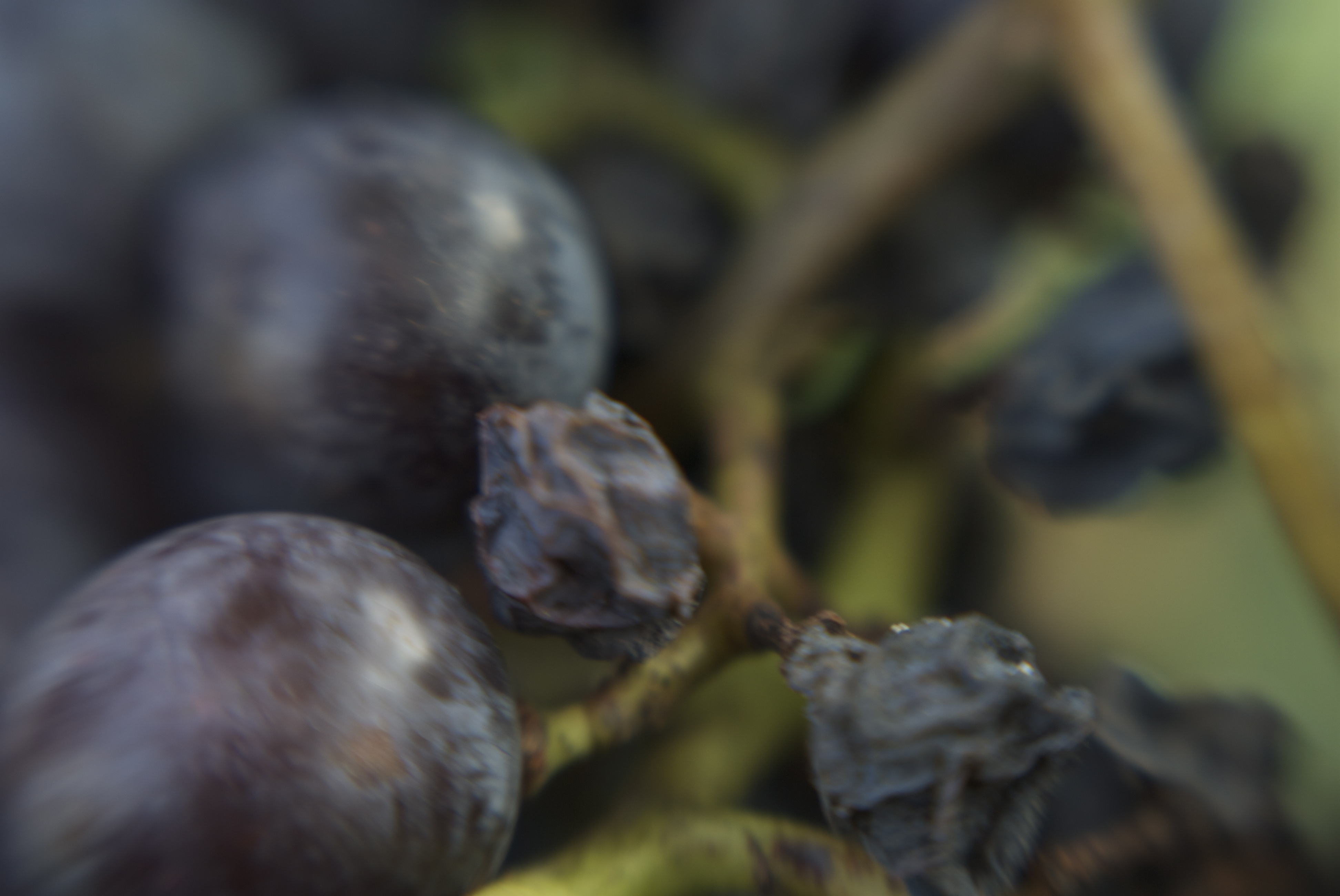 Wine grapes and raisins on the vine. This is an example of uneven ripening.